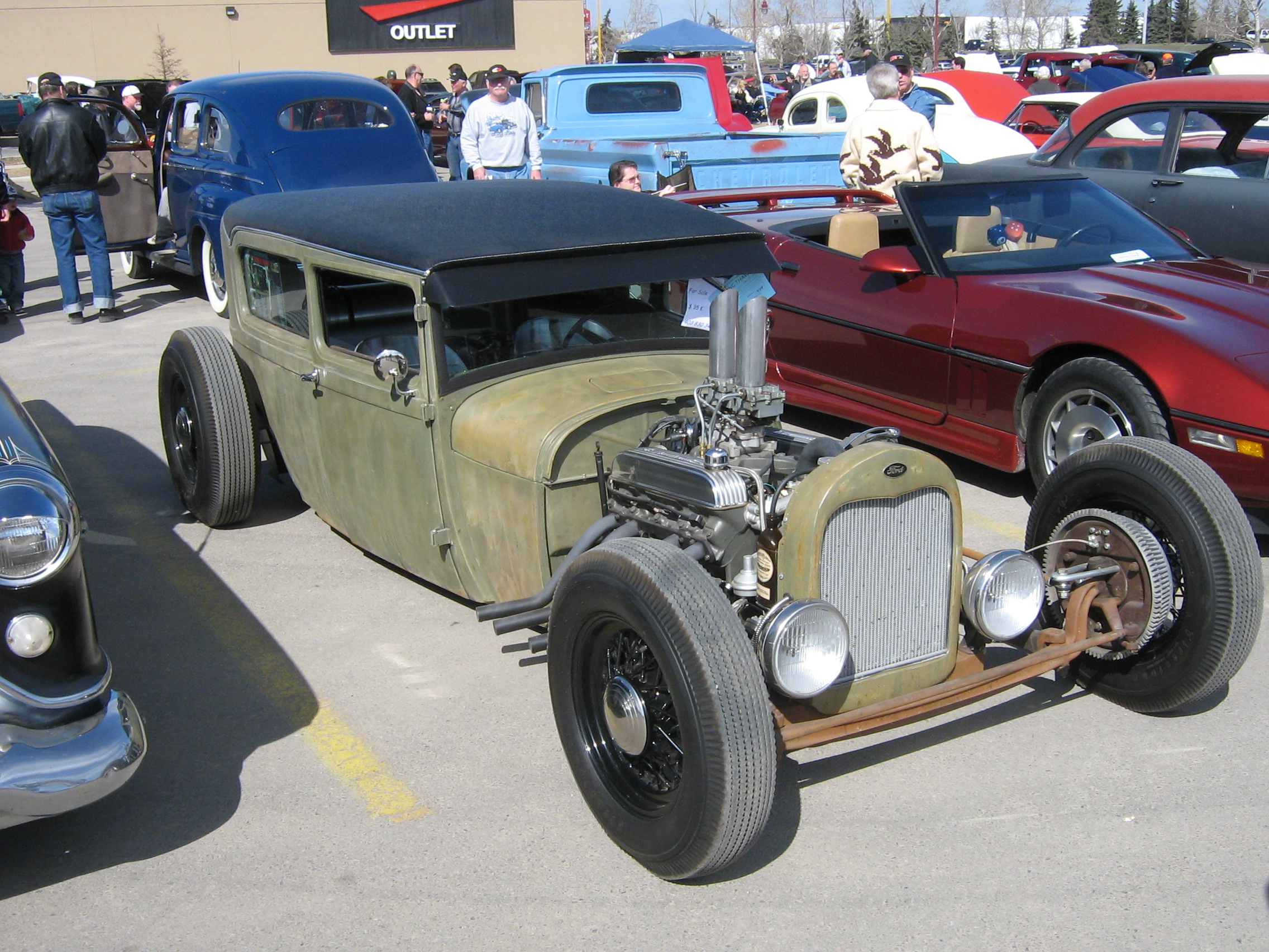 Rat Rod